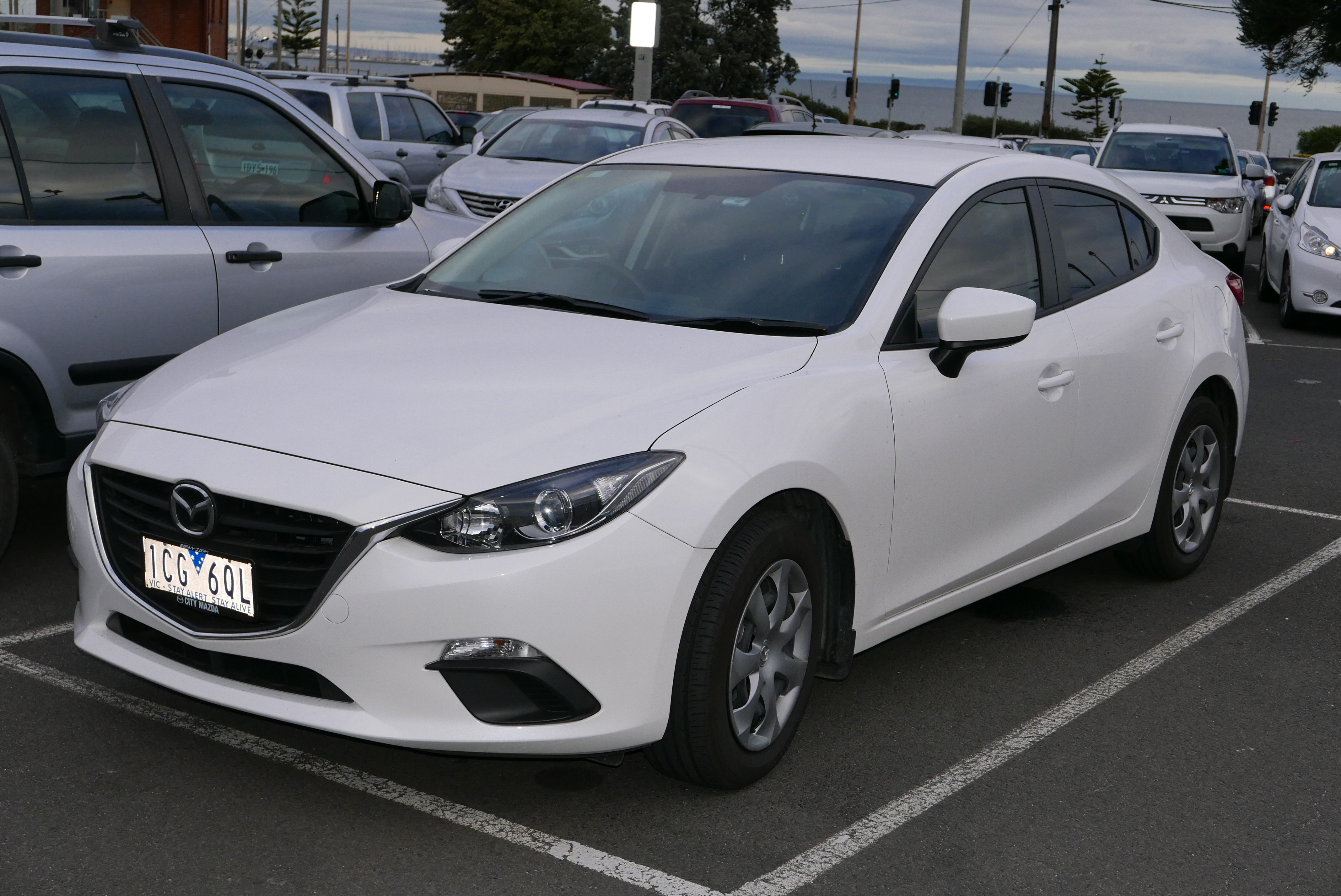 2014 Mazda3 (BM) Neo sedan. Photographed in Brighton, Victoria, Australia. Vehicle registration enquiry resultsJurisdictionVictoriaRegistration1CG6QLChassis codeJM0BM527810118183Engine codePE20465339Compliance date2014-03Year of manufacture2014